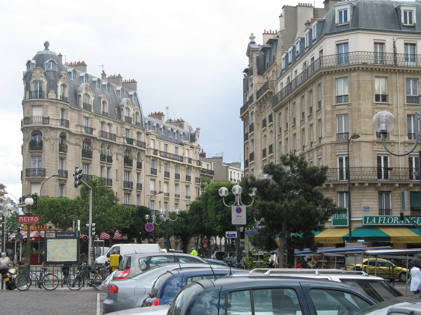 Saint-Mandé, at the level of line 1 metro station. (Author: Metropolitan)